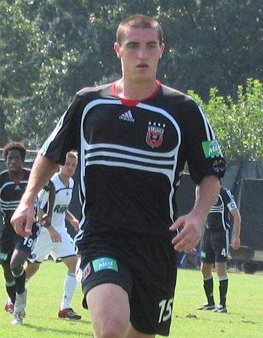 Photo of Rod Dyachenko taken by me at a D.C. United reserve game at Robert F. Kennedy Memorial Stadium's auxillary field.